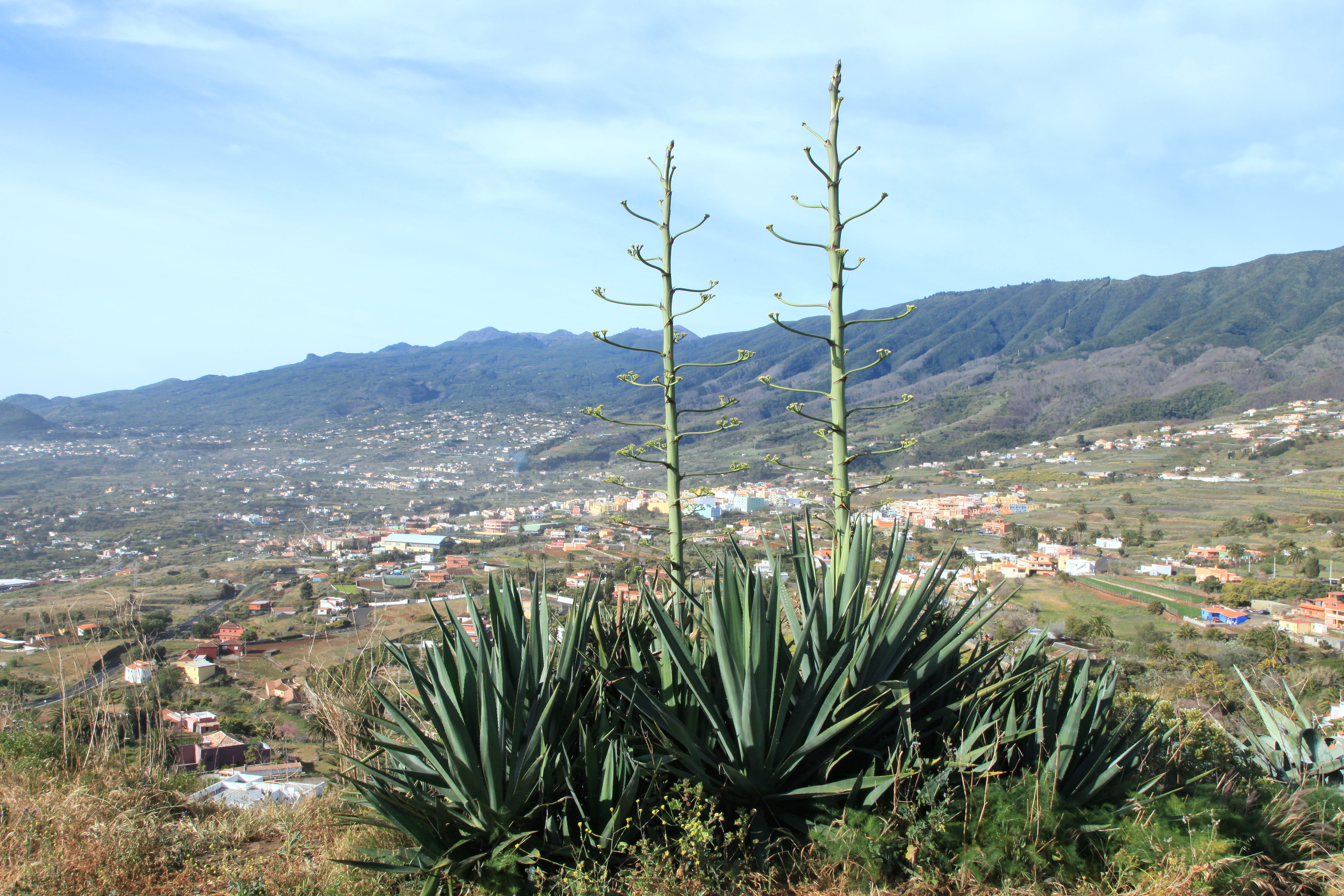 Agave americana growing at Subida al Mirador de la Concepción in Breña Alta, La Palma, Canary Island, Spain